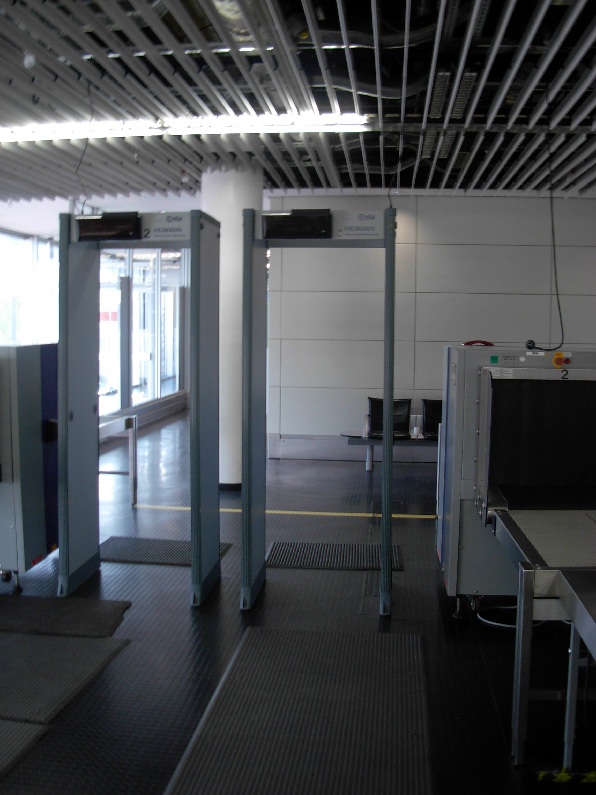 Airport security machines